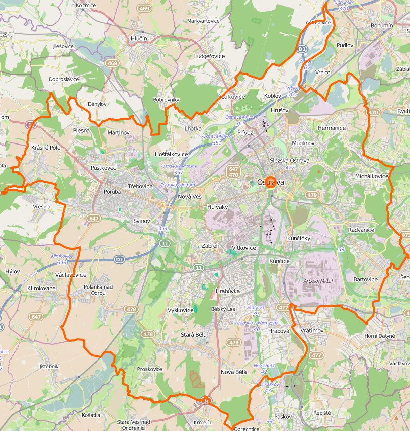 Location map of Ostrava, Czech Republic This map of Lędziny was created from OpenStreetMap project data, collected by the community. This map may be incomplete, and may contain errors. Don't rely solely on it for navigation.